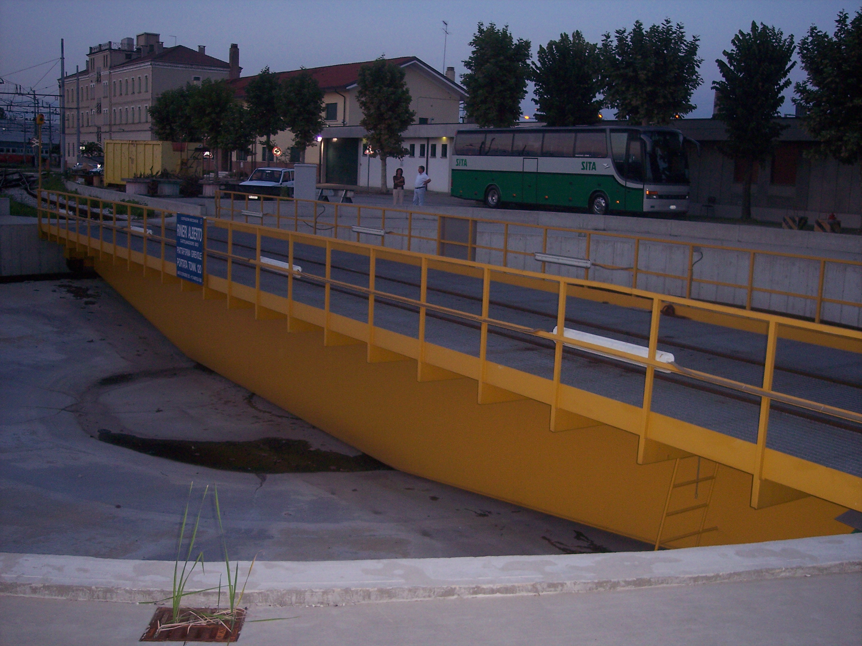 Turntable of Venezia-mestre depot, Italy. Built to turn single-cabin locomotives and historical steamers. A prvious turntable had been scrapped because thought to be useless.